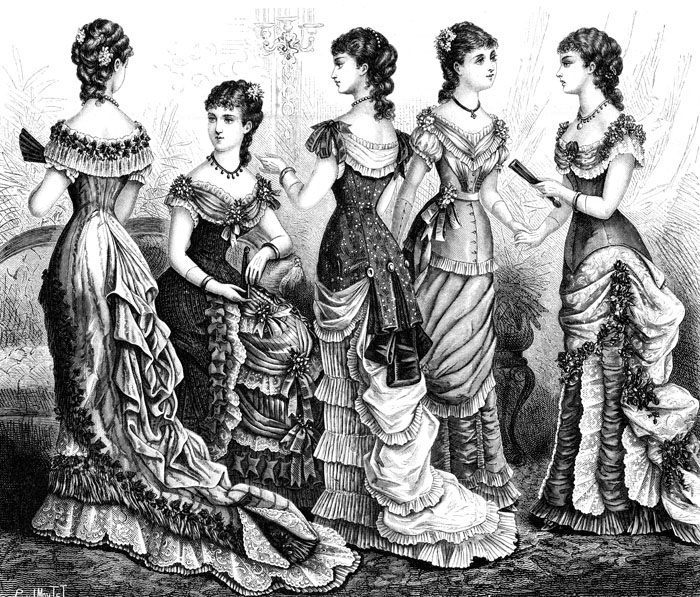 Ball gowns, late 1870s